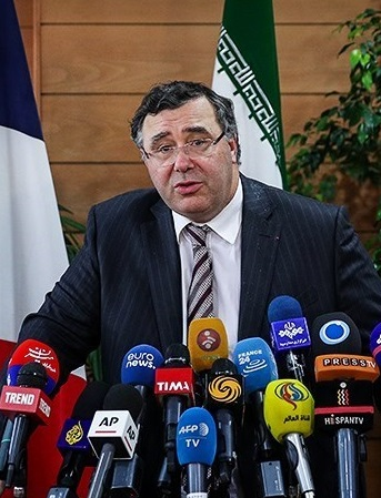 Patrick Pouyanné